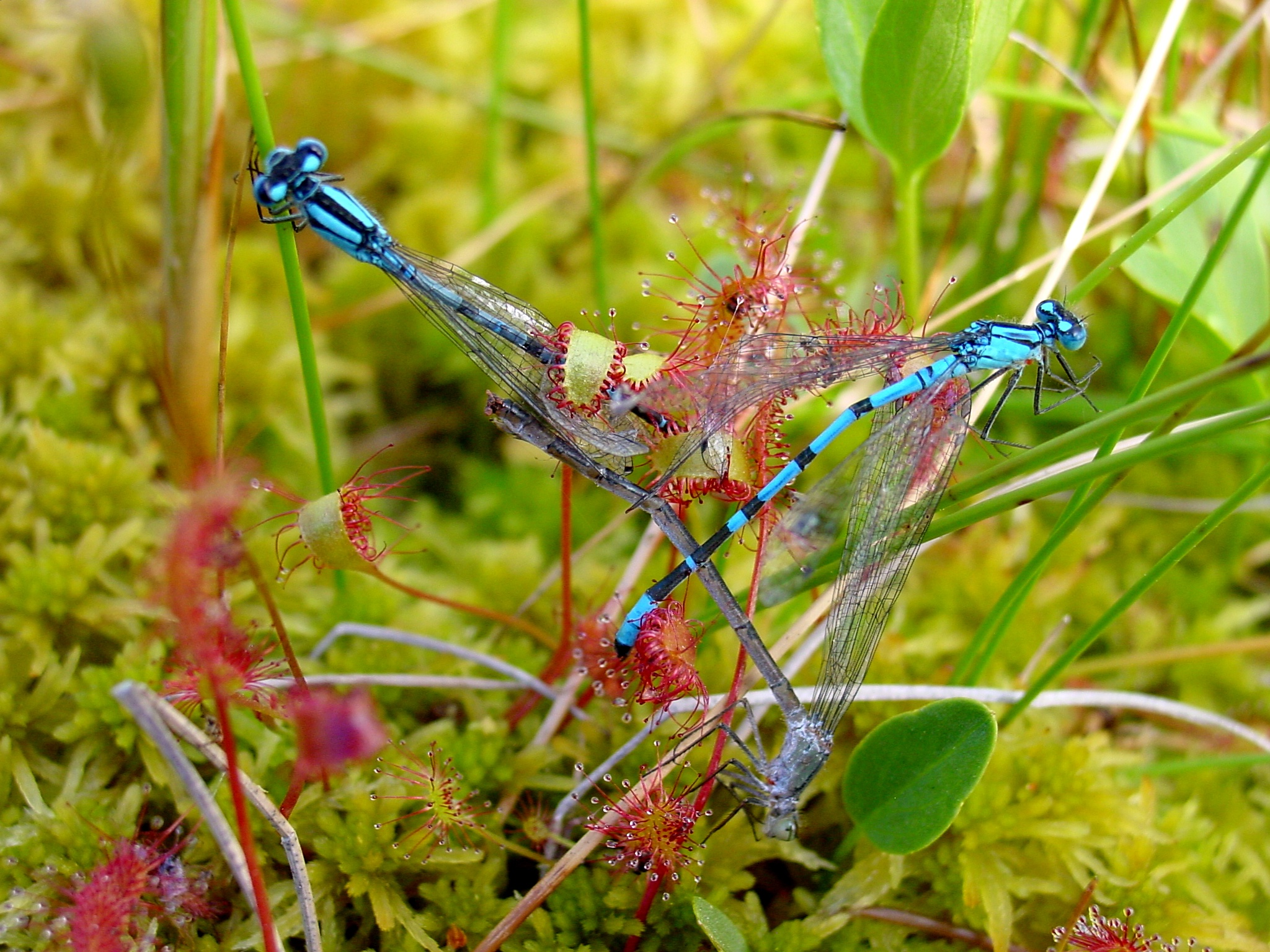 The plants are sundews (Drosera anglica), insectivorous plants which use the sticky tentacles covering their leaves to attract, trap, and digest insect prey. These damselflies (Enallagma cyathigerum) have been ensnared in this manner. Photo taken in Duck Lake, Oregon.